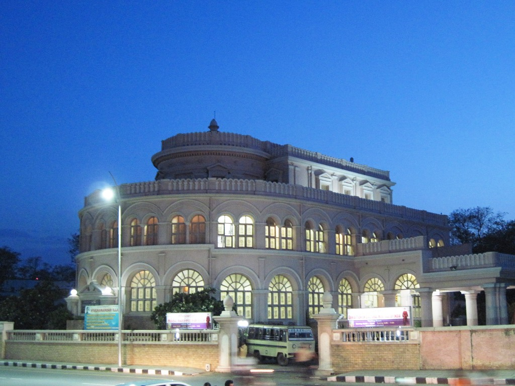 Vivekanandar Illam (or Vivekananda House) is a structure in Chennai, India. This is remembered as the place where Swami Vivekananda stayed for nine days when he visited Chennai in 1897. Vivekanandar Illam now houses a permanent exhibition on Swami Vivekananda set up by the Chennai branch of the Ramakrishna Math.